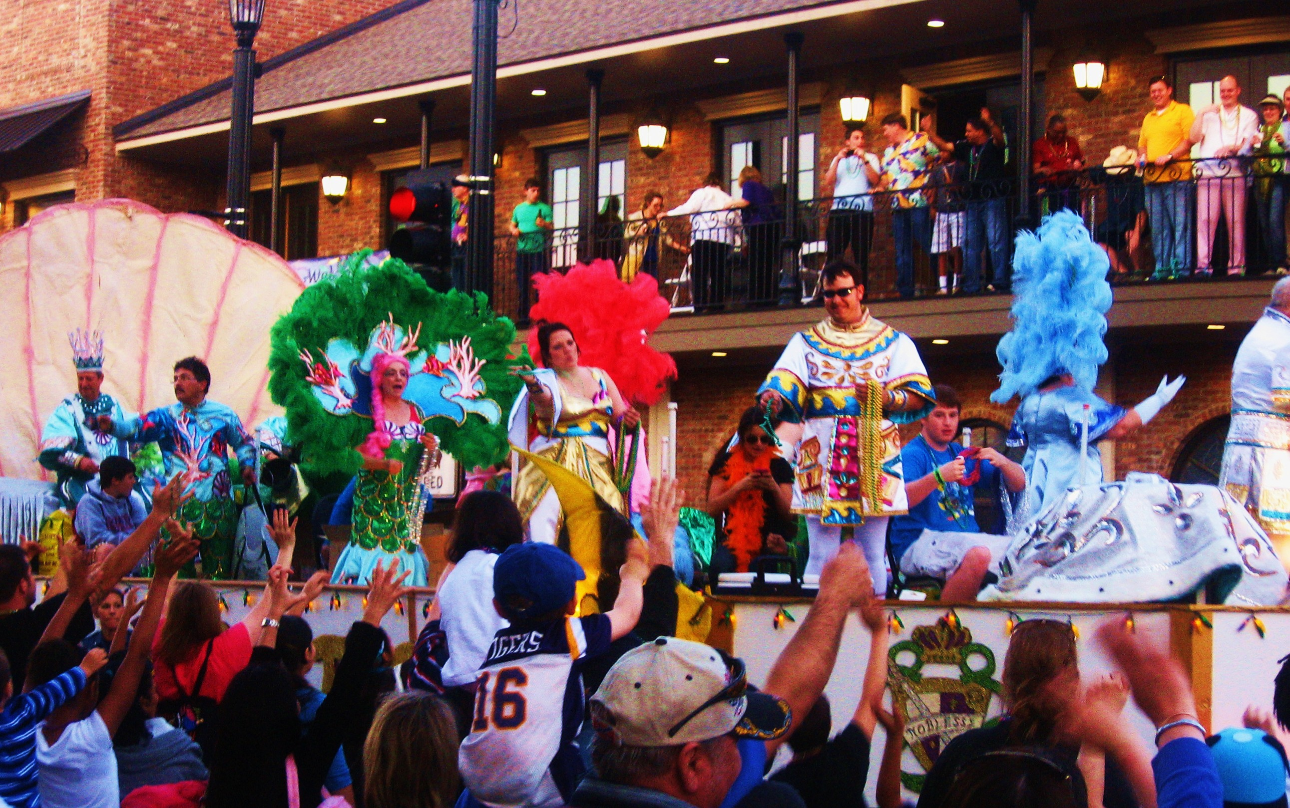 A Mardi Gras parade float in Lake Charles, LA